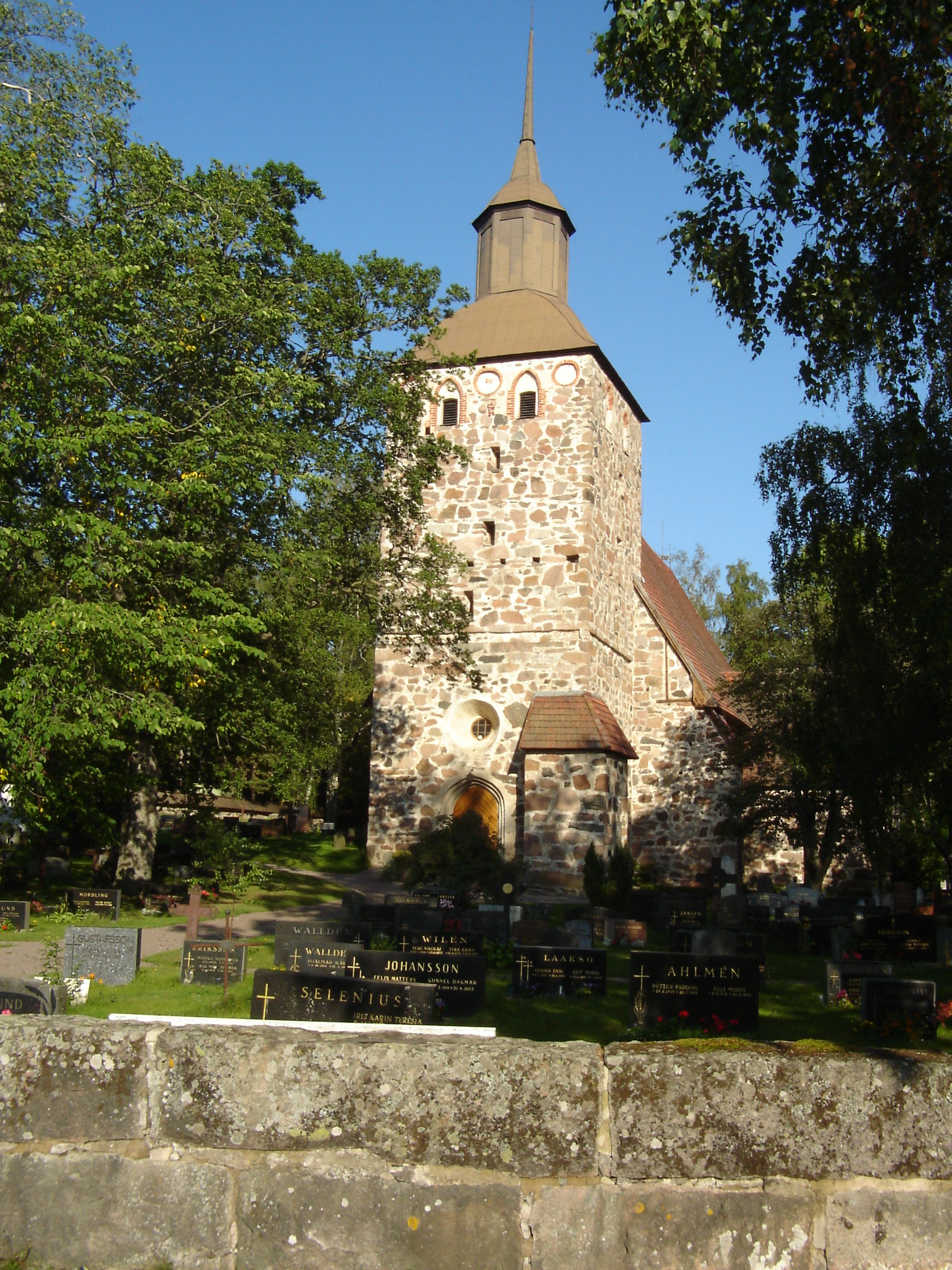 Medieval church (14th century) of Korpo, Finland